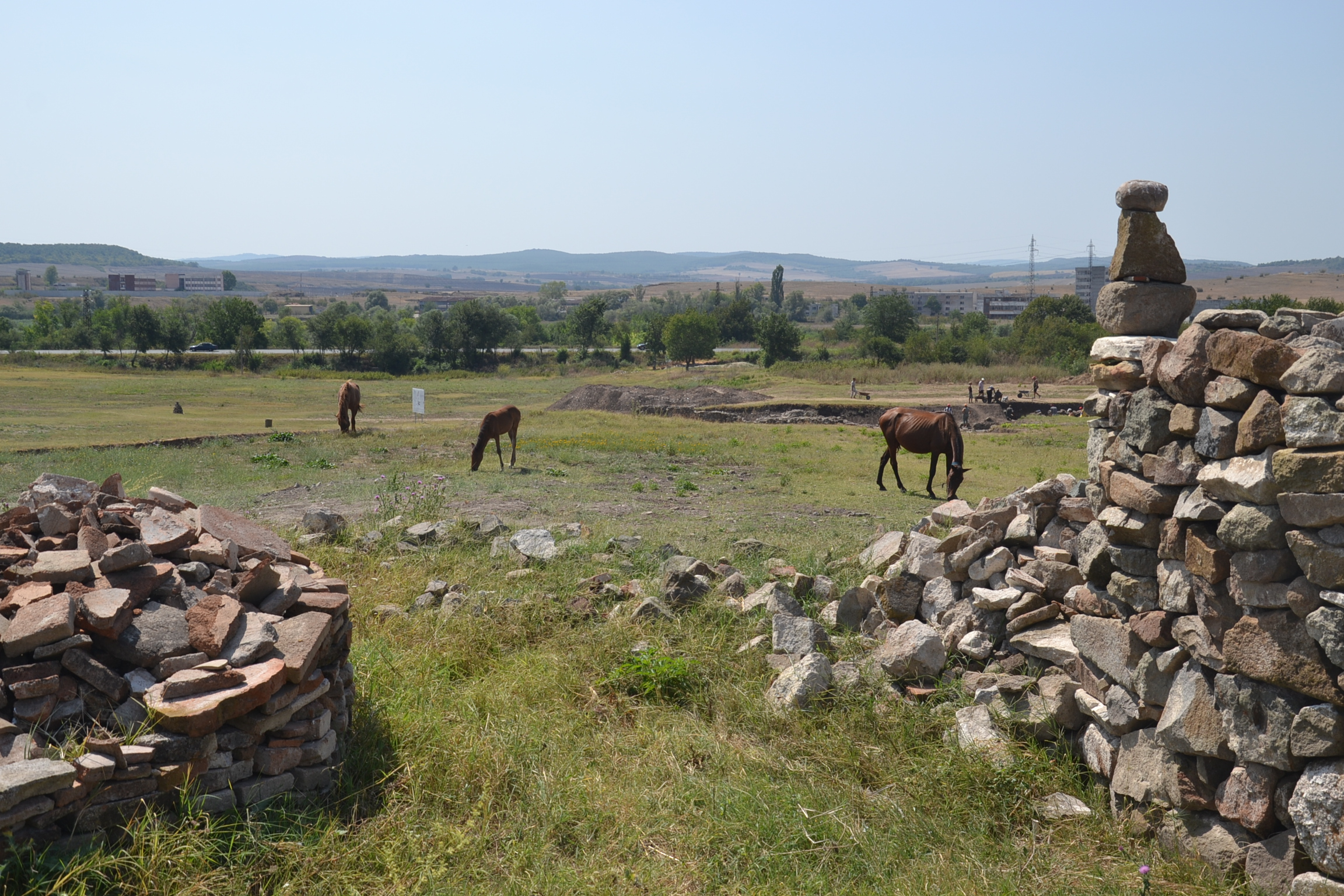 Debelt (Дебелт), Bulgaria - ruins of ancient city Deultum